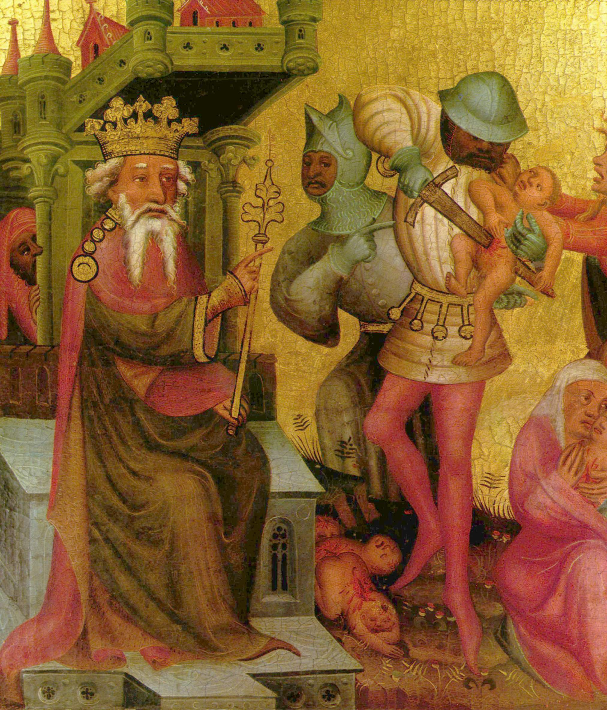 Middle part (bottom row, second from the left picture), Massacre of the Innocents